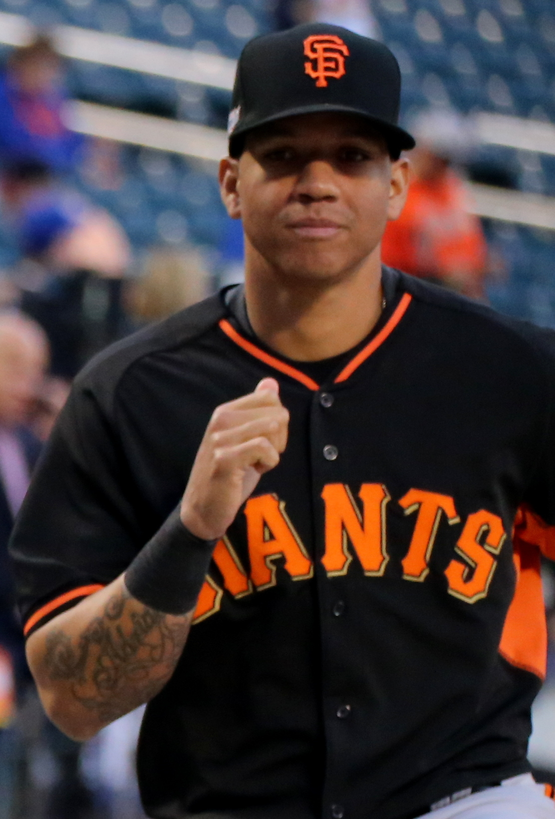 Gorkys Hernández, Ángel Pagán, Gregor Blanco and Ehíré Adríanza of the San Francisco Giants before the 2016 NL Wild Card Game.